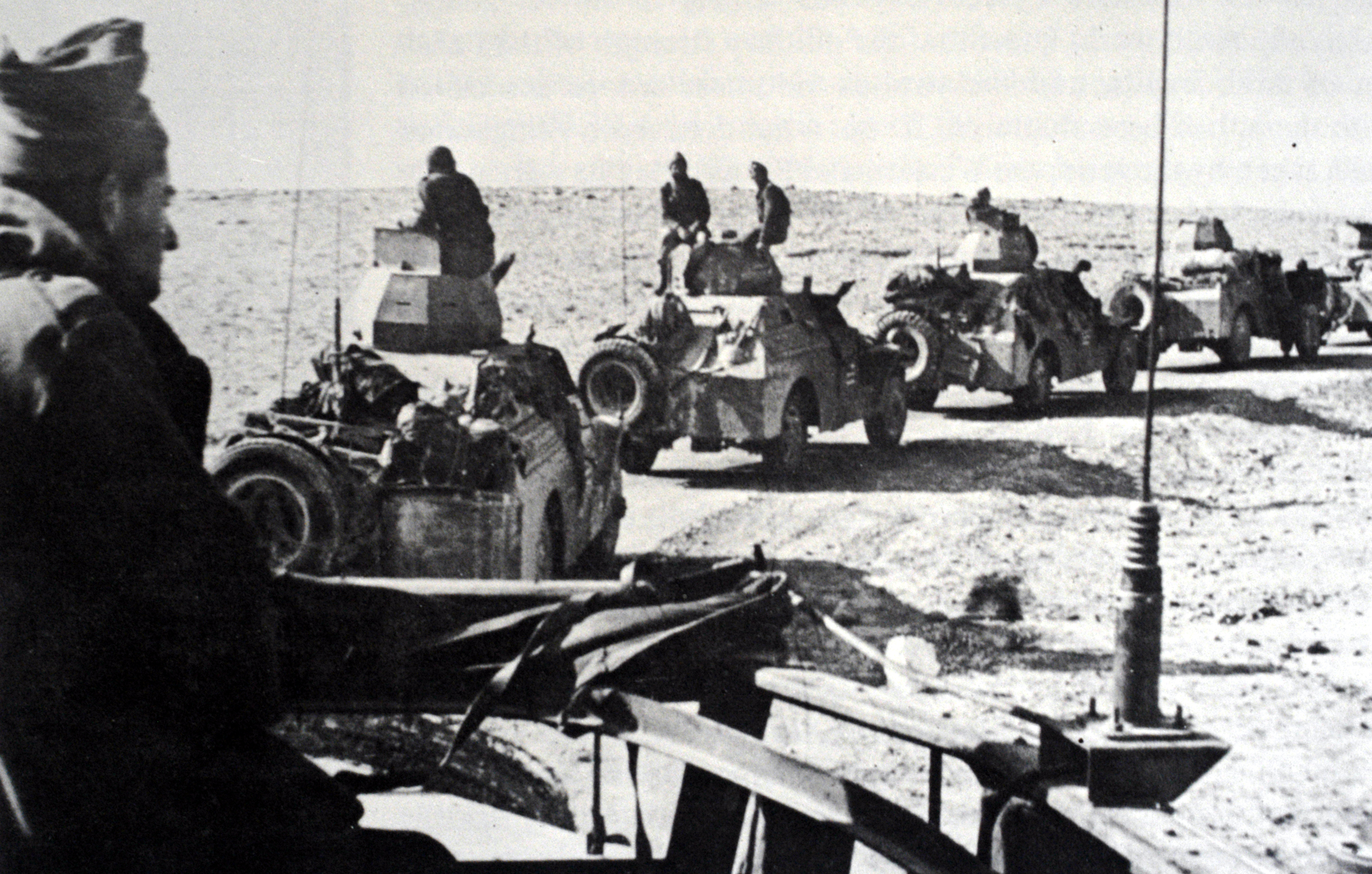 A force of Palmach armoured cars sets out on patrol in the Negev.